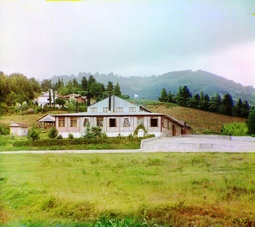 General view of tea factory in Chakva.